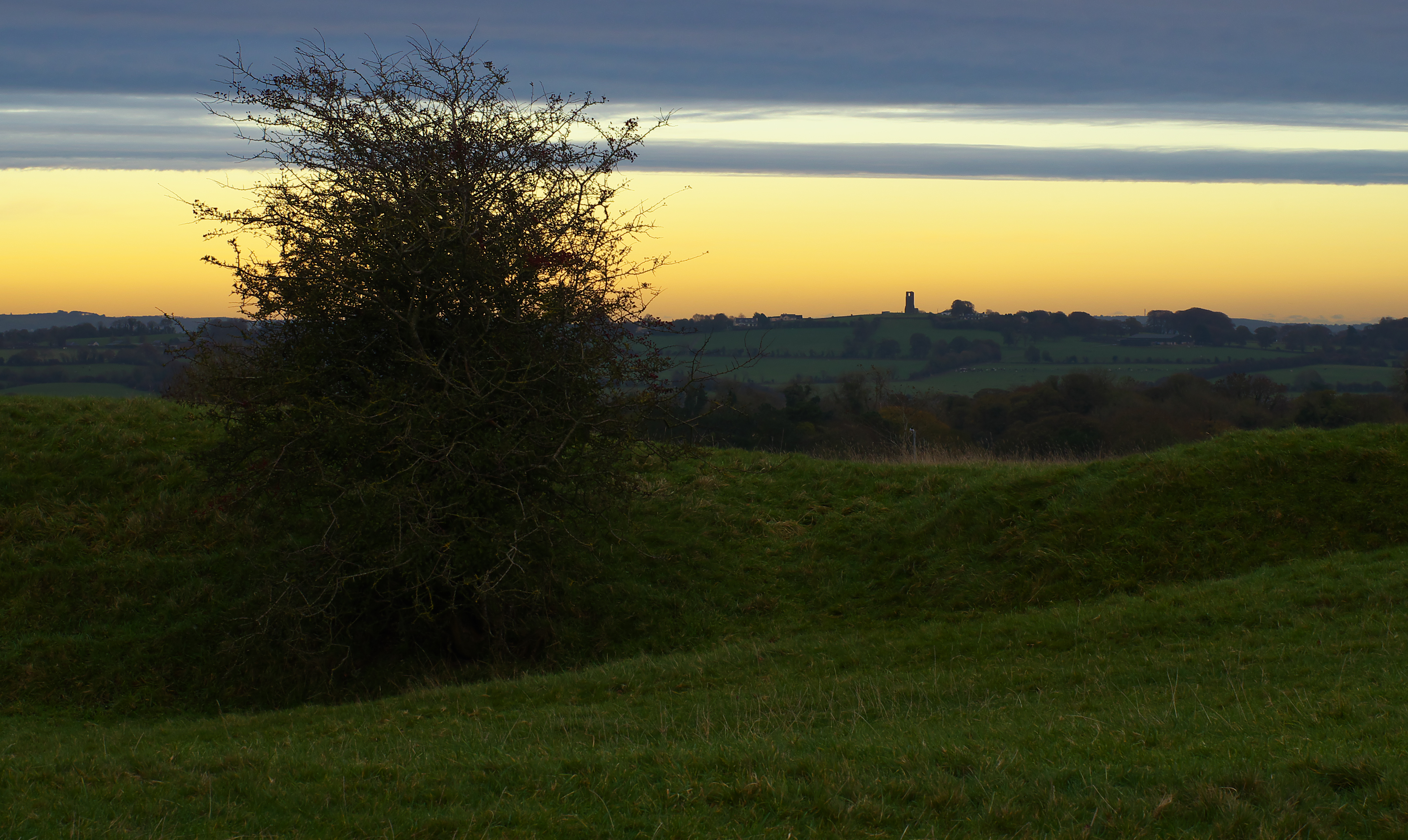 Skryne Tower, a ruined 15th-century church associated with Colmcille, viewed from the Hill of Tara at sunset.